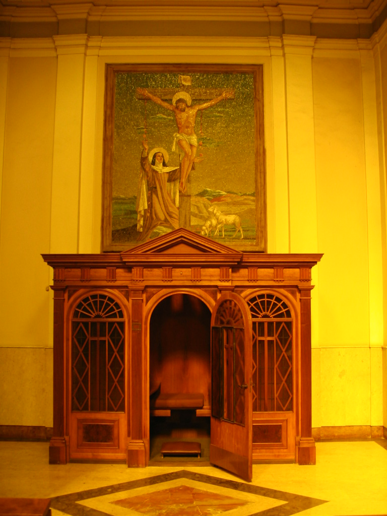 One of the insides of the many churches on Sicily